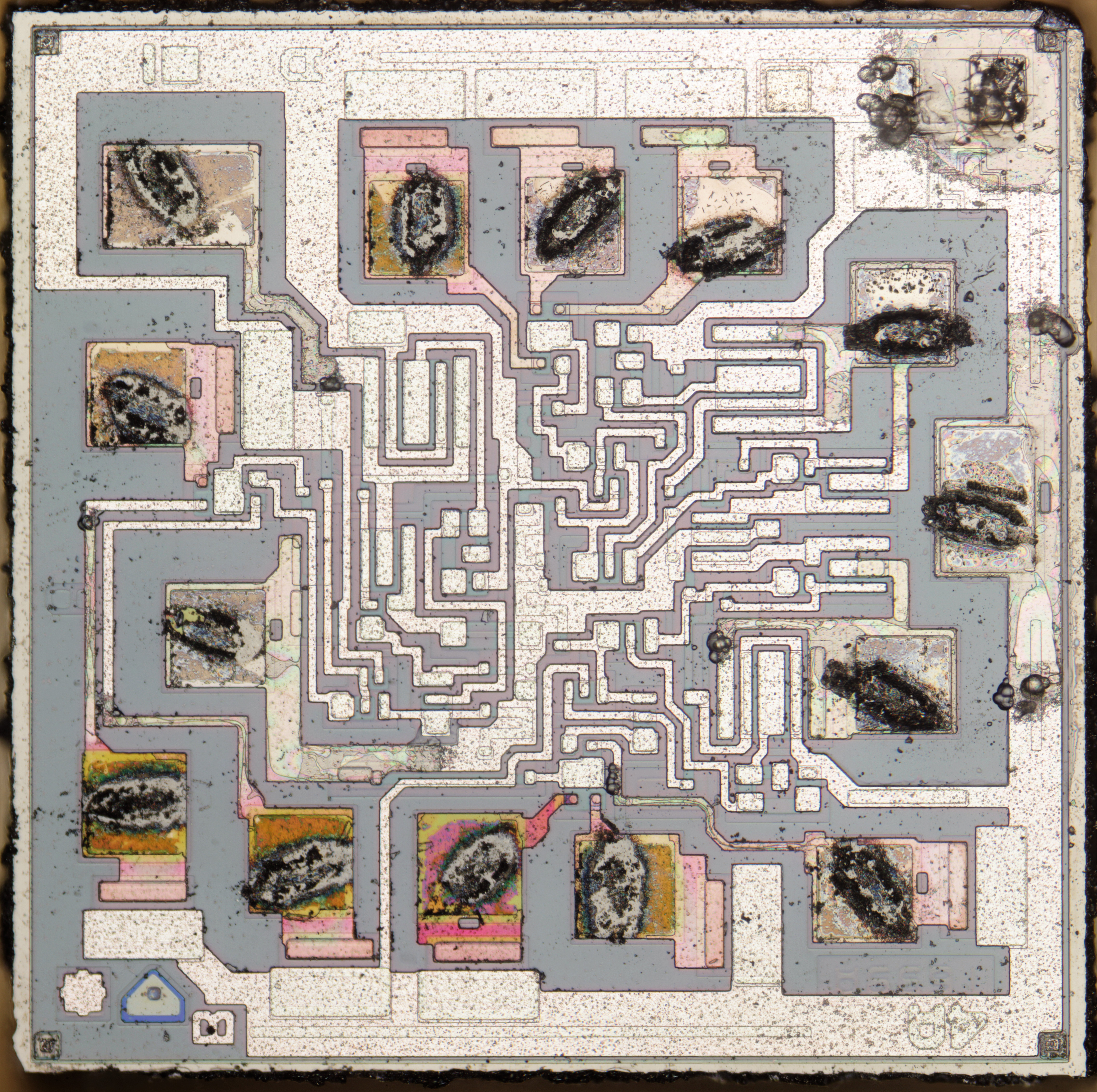 Die photo of a Signetics 74S11 chip, datecode 8150. Resolution: 120 nm per pixel.